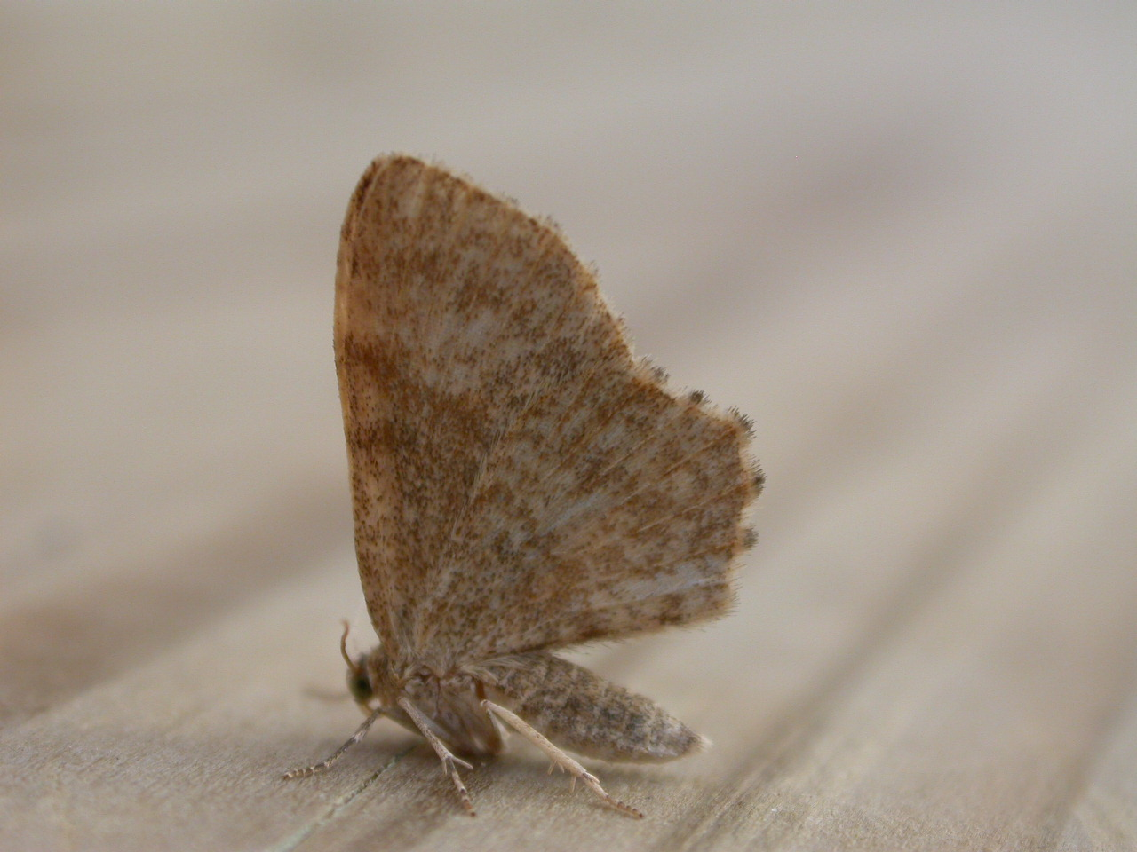 Euchoeca nebulata, Gastes, Landes, SW France, 4/5 July 2003